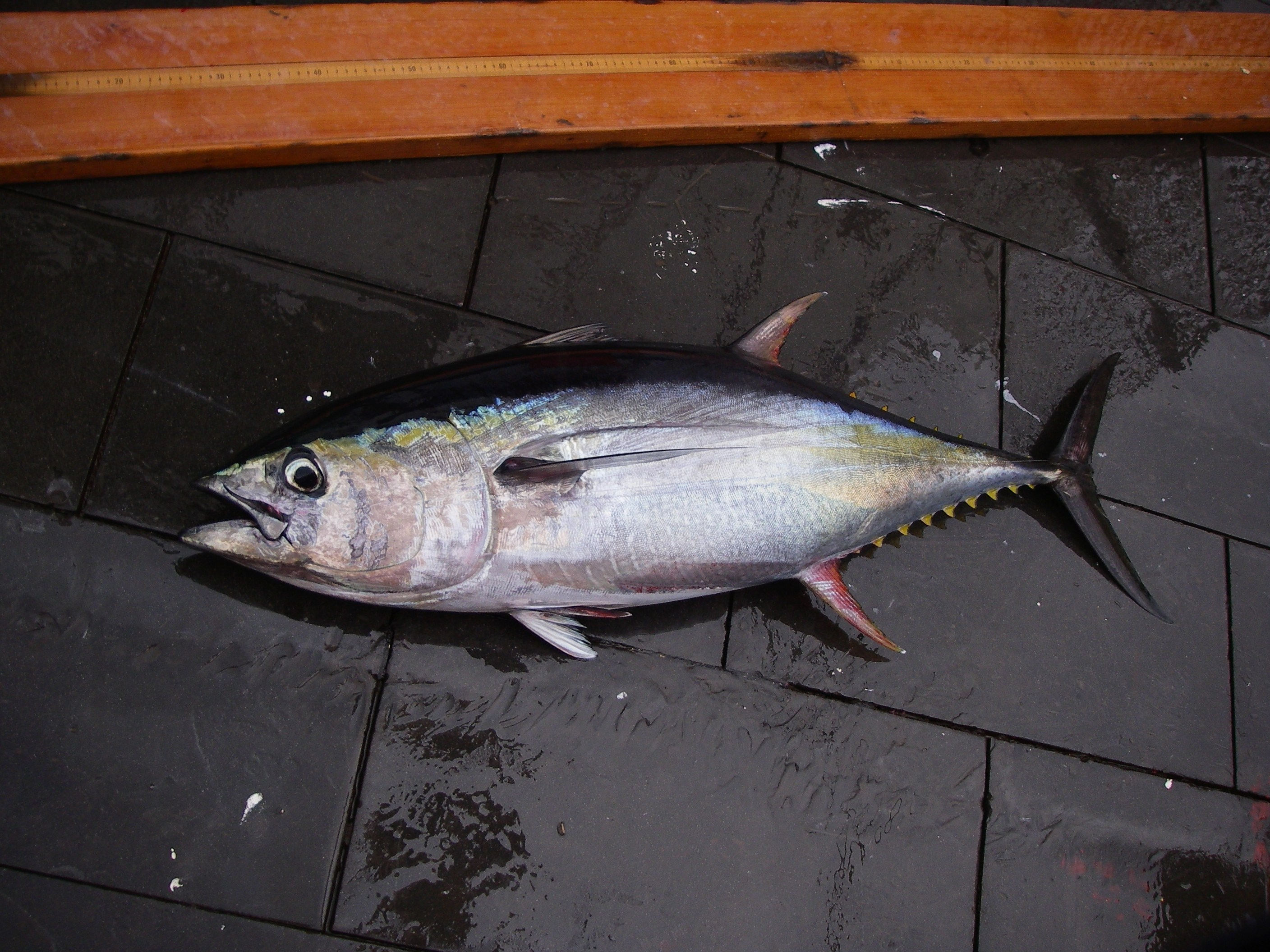 Yellowfin tuna ( Thunnus albacares ). Gulf of Mexico.